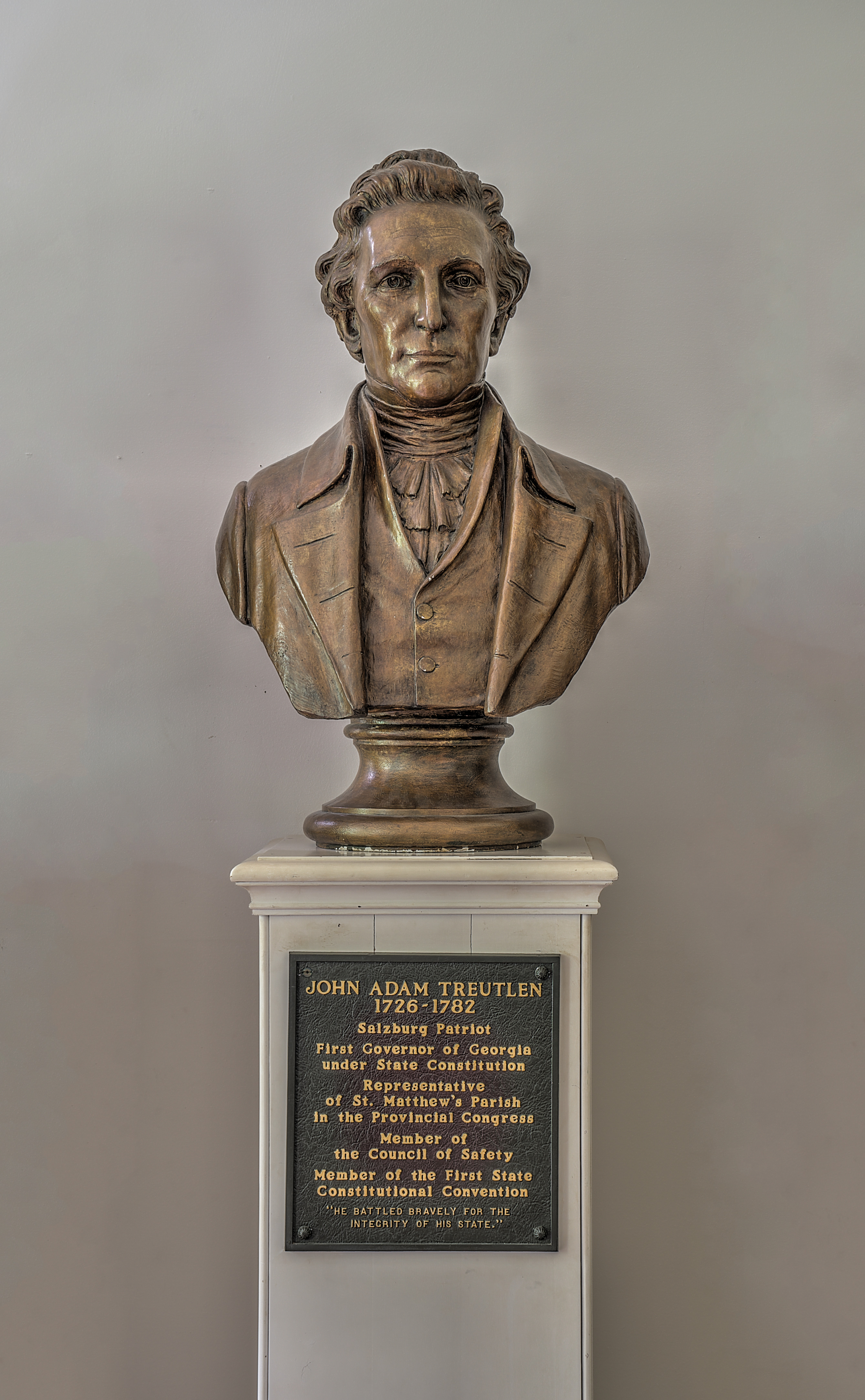 Bust of John Adam Treutlen at the Washington Historical Museum